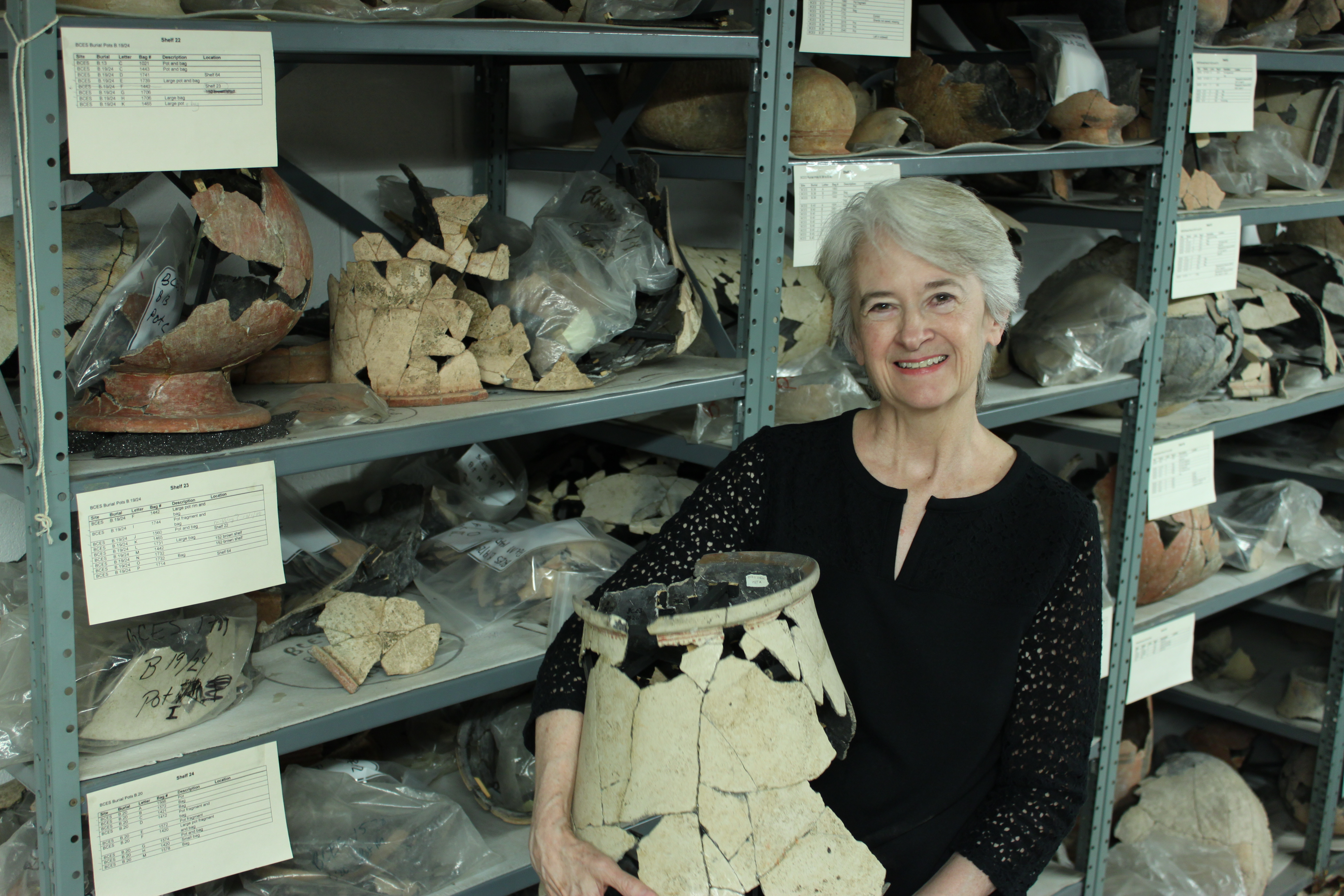 Photo from ISEAA archives, taken by Beth Van Horn